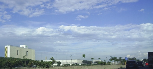 Marginal Tietê and Complexo do Anhembi, in São Paulo City.